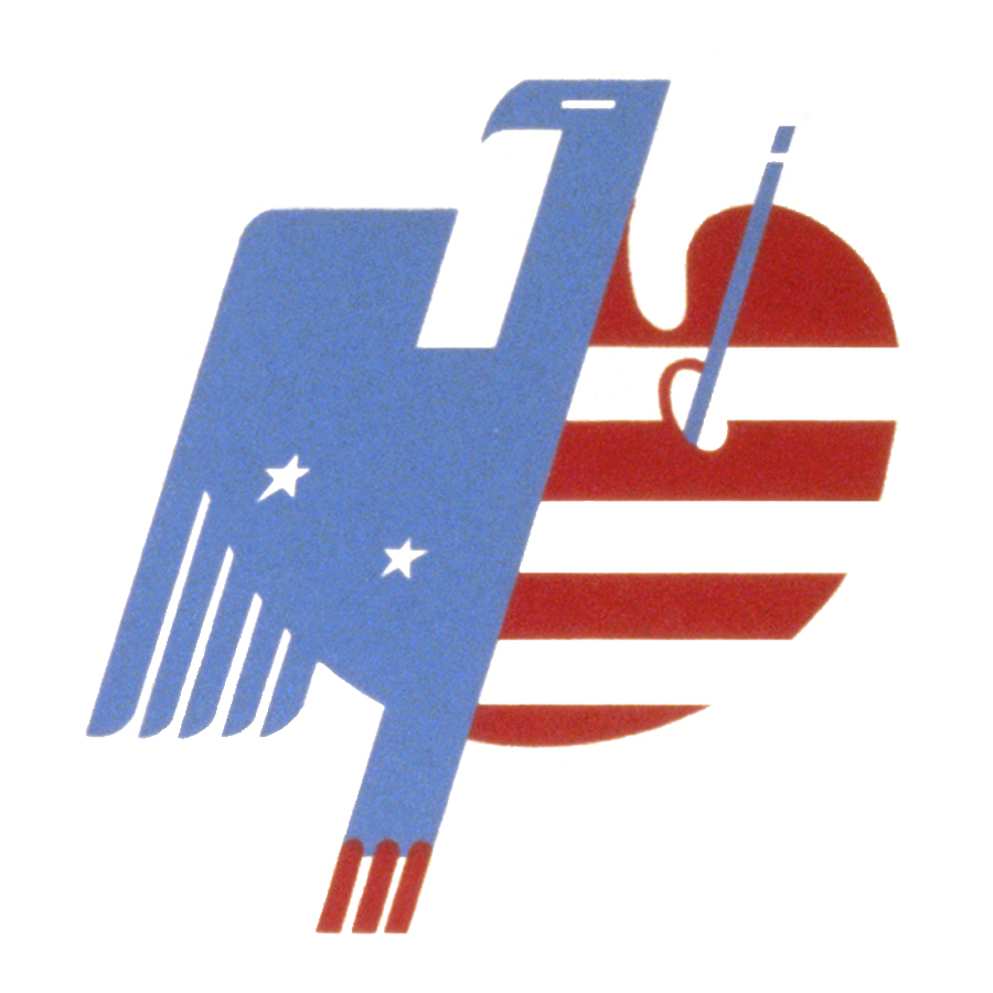 Eagle and palette design generally accepted as the logo of the Federal Art Project